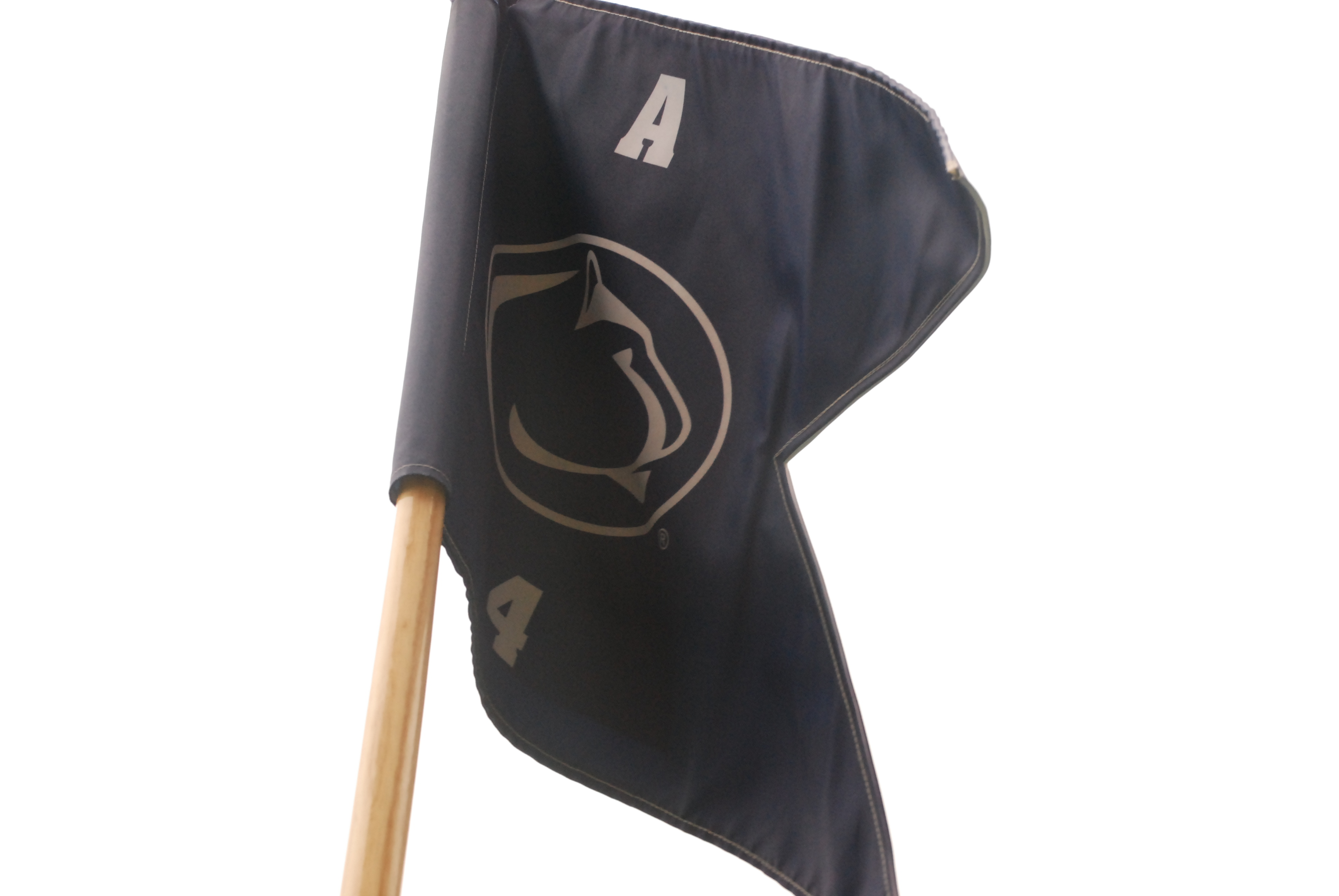 PSU AROTC Guidon at Area 5